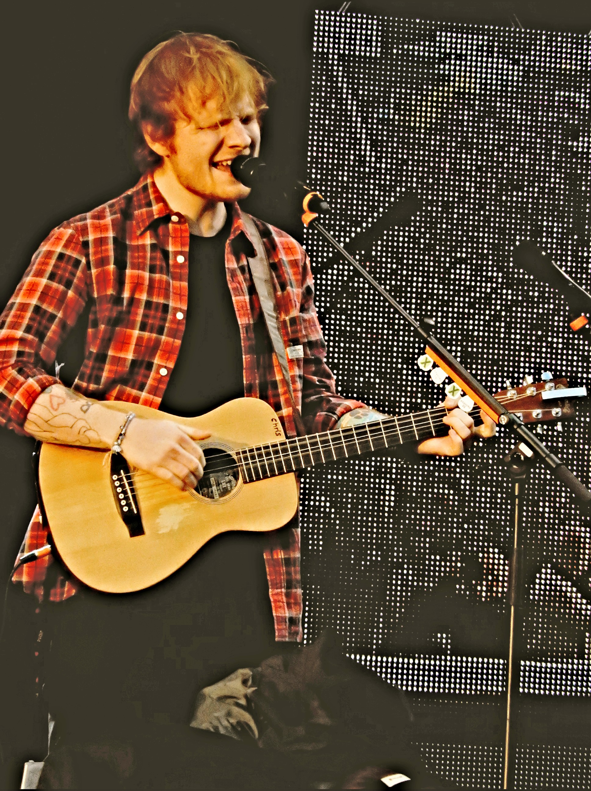 Ed Sheeran, V Festival 2014, Chelmsford